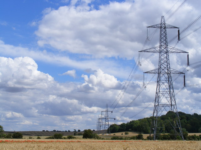 pylons, poppies and prairie at Temple End photo taken from where the footpath from Great Offley to Hitchin intersects with the National Grid powerline from Chalton (north of Luton) to St Ippolitts (near Stevenage)